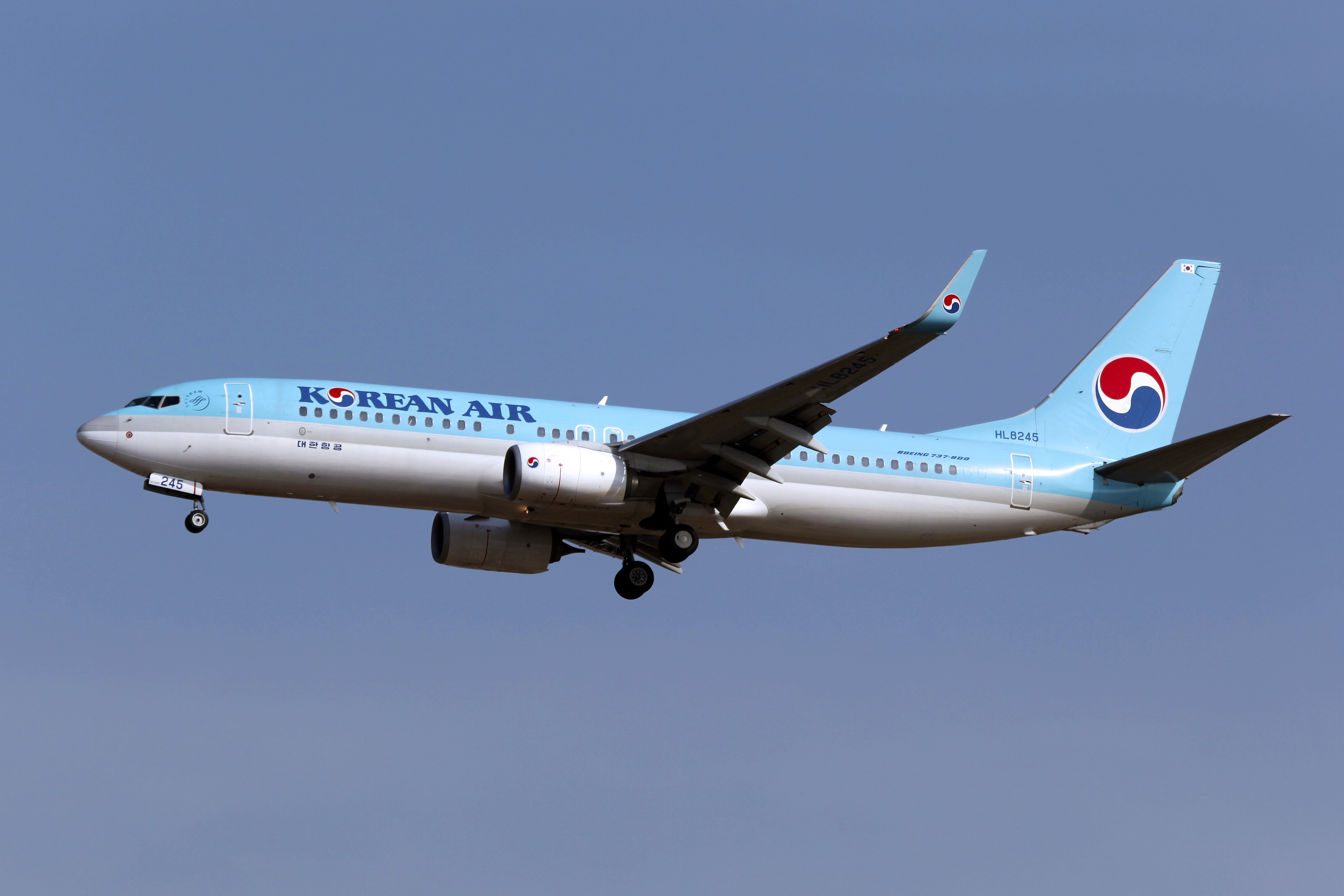 HL8245 Korean Air Lines Boeing 737-8Q8(WL) Seoul Incheon International Airport [ICN]